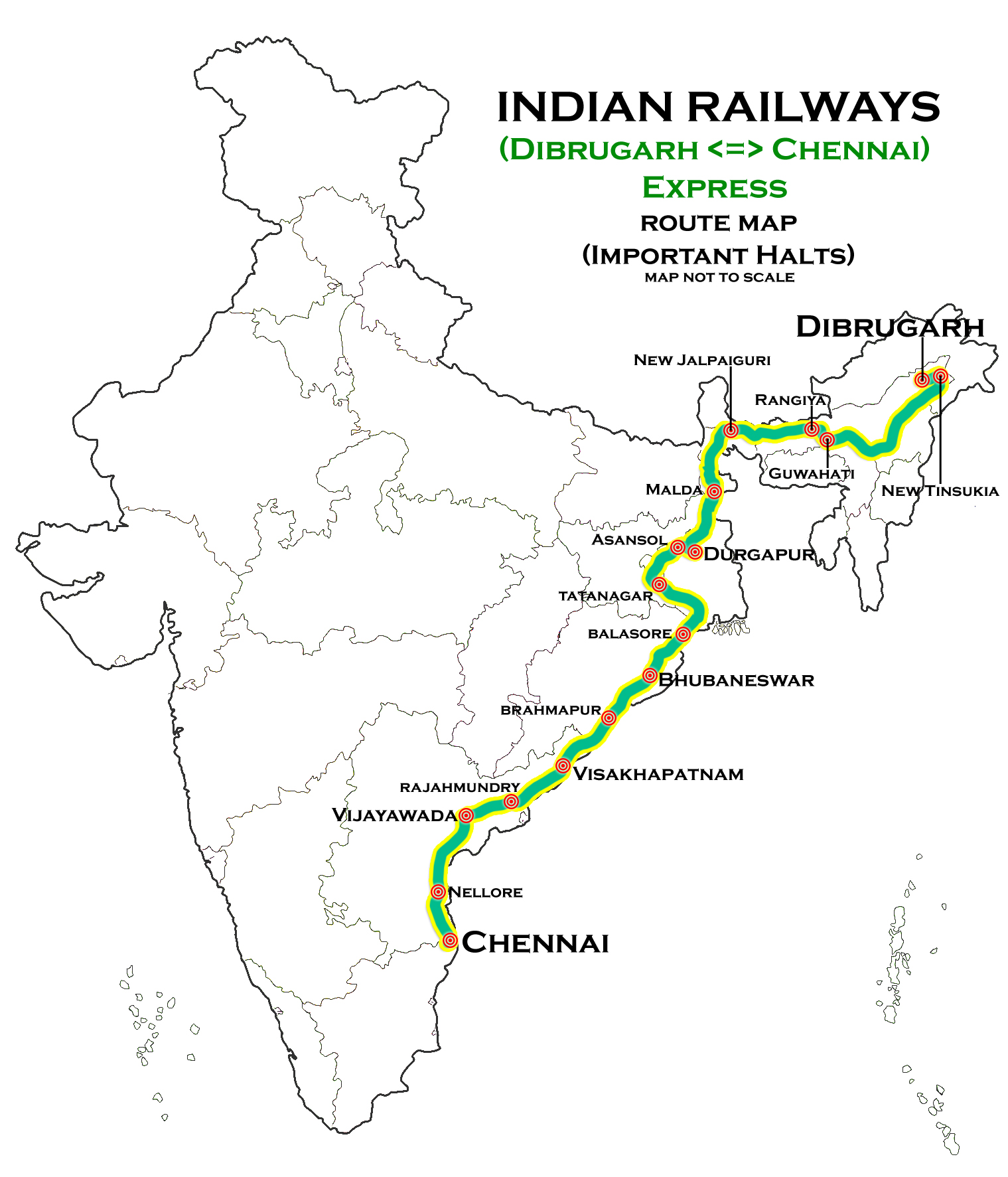 (Dibrugarh - Chennai) Express Route map